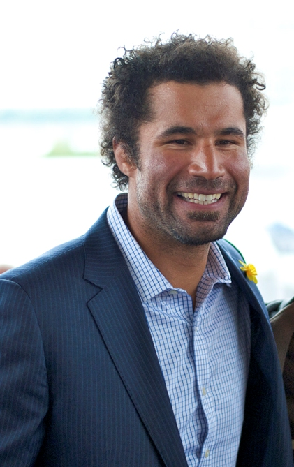 Richard Parks July 19, 2011